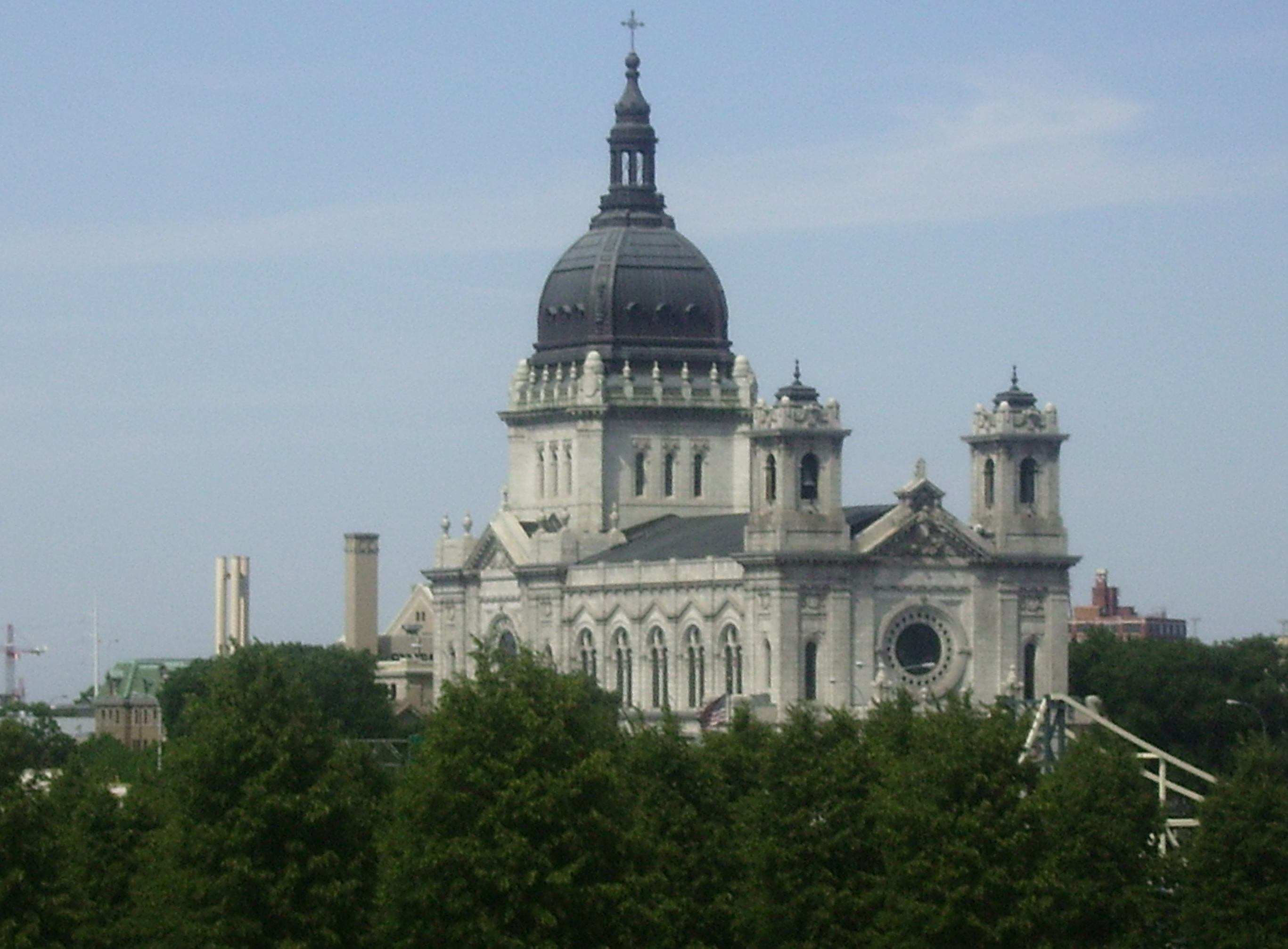 Basilica of Saint Mary, Minneapolis, Minnesota. Image was cropped and modified.